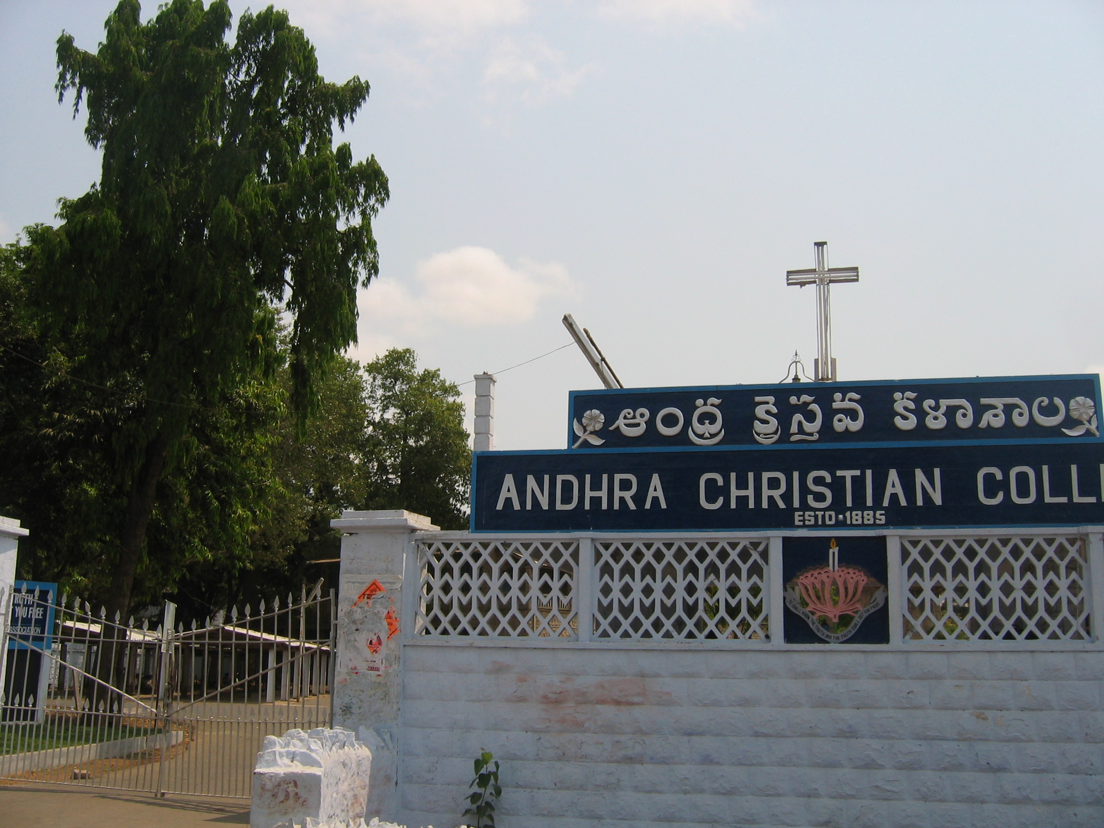 AC College at Guntur City, India.